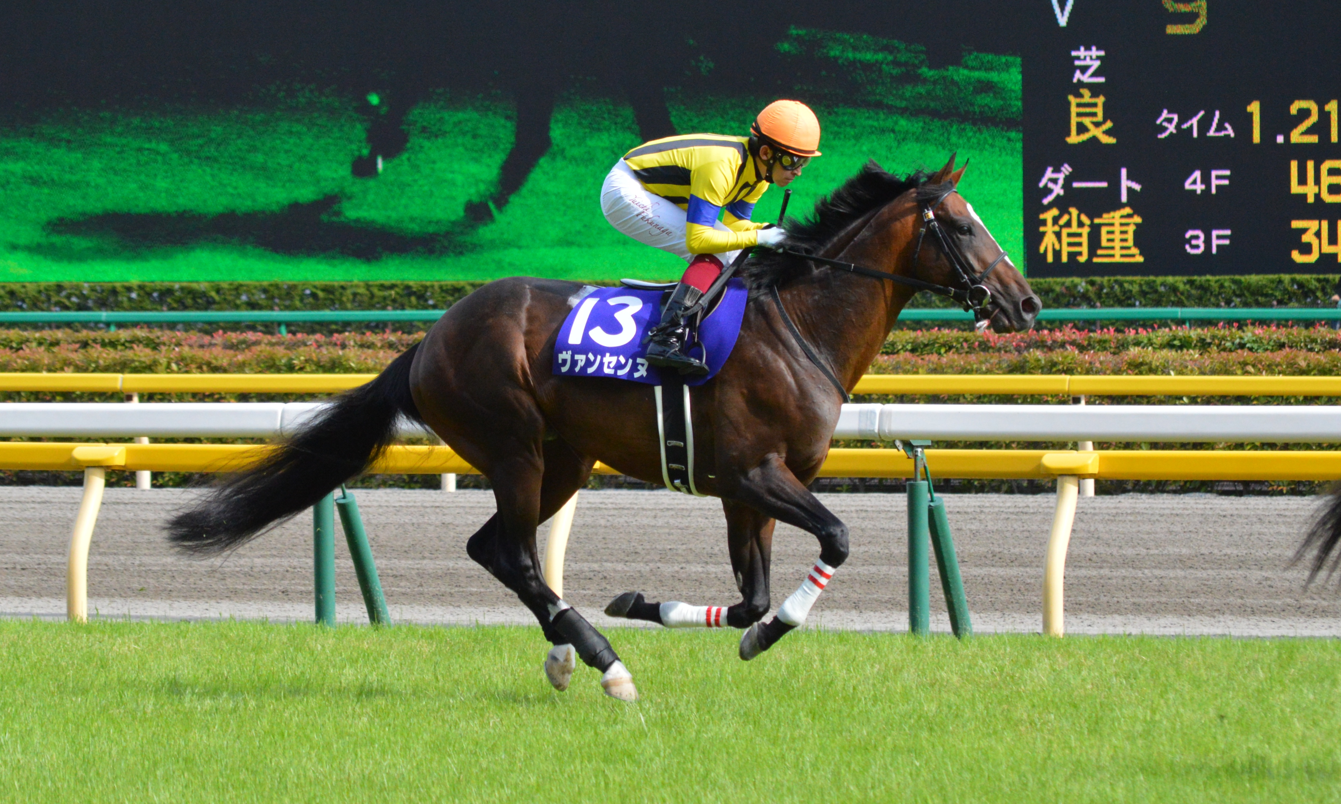 Japanese race horse Vincennes at Tokyo racecourse. Tokyo (JPN) 07 Jun 2015Yasuda Kinen (Grade 1) (3yo+) (Turf) 1m Firm RankHorse NameOddsAgeWgtJockeyTrainer1stMaurice (JPN)27/10FC49-2Yuga KawadaNoriyuki Hori2ndVincennes (JPN)56/10H69-2Yuichi FukunagaMikio MatsunagaOthers are omitted. (17 horses entered in a race.)